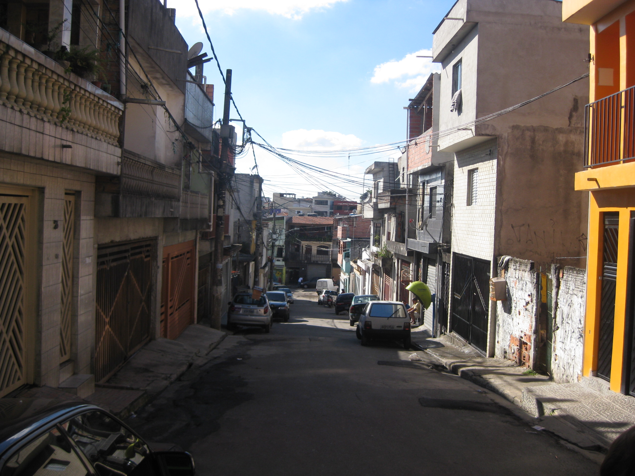 rua das casinhas